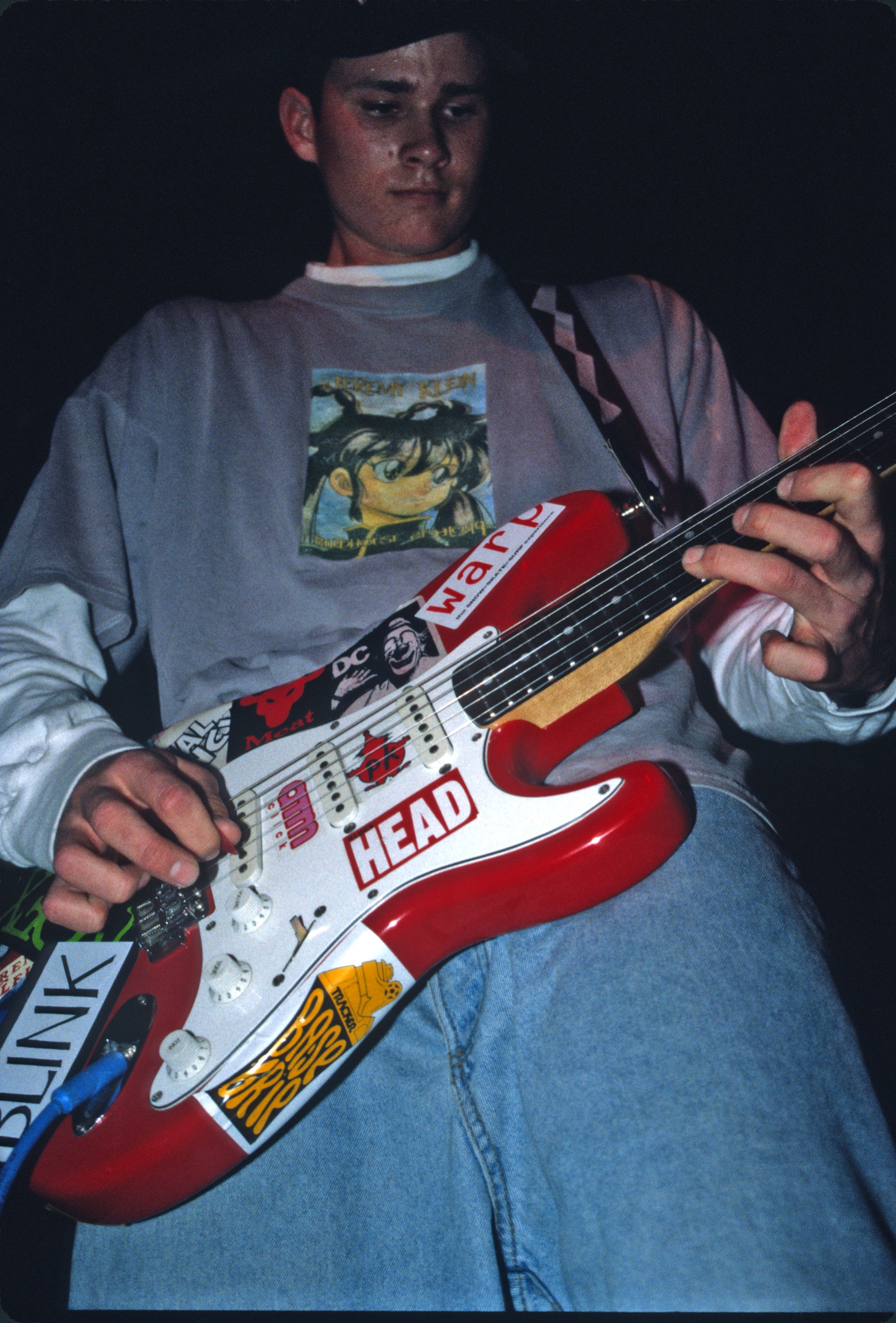 Tom DeLonge playing guitar at an early Blink-182 show